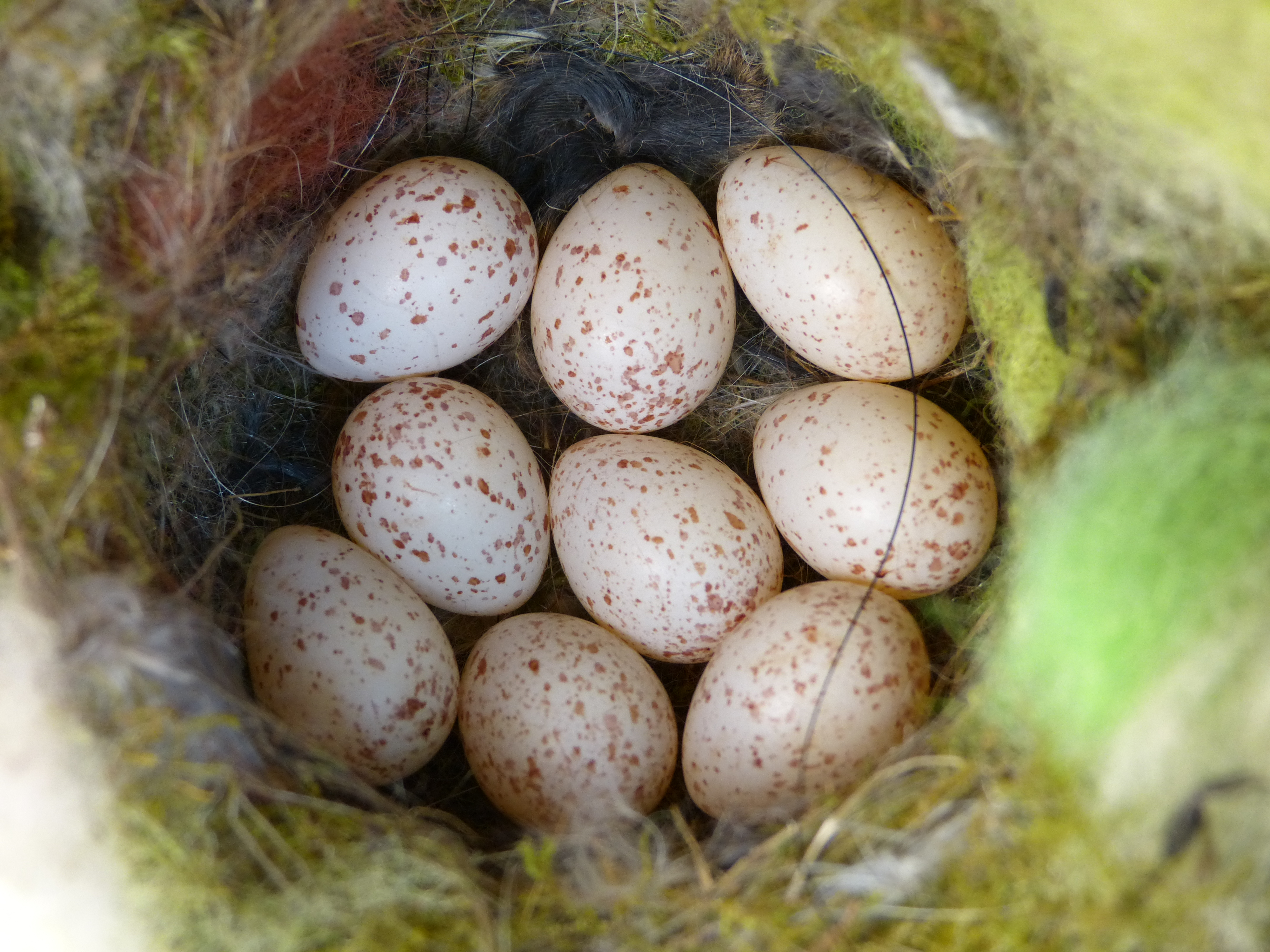 Latin name Parus major Family Tits (Paridae) Overview The largest UK tit - green and yellow with a striking glossy black head with... Where to see them ... When to see them All year round. What they eat Insects, seeds and nuts.